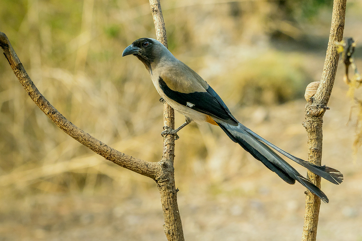 Individual From Sattal India